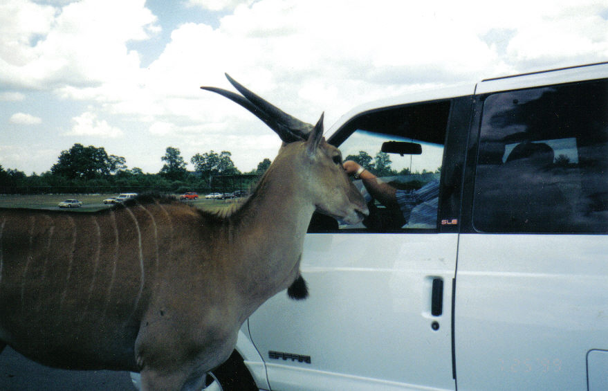 Common Eland at African Lion Safari, Cambridge, Ontario, Canada